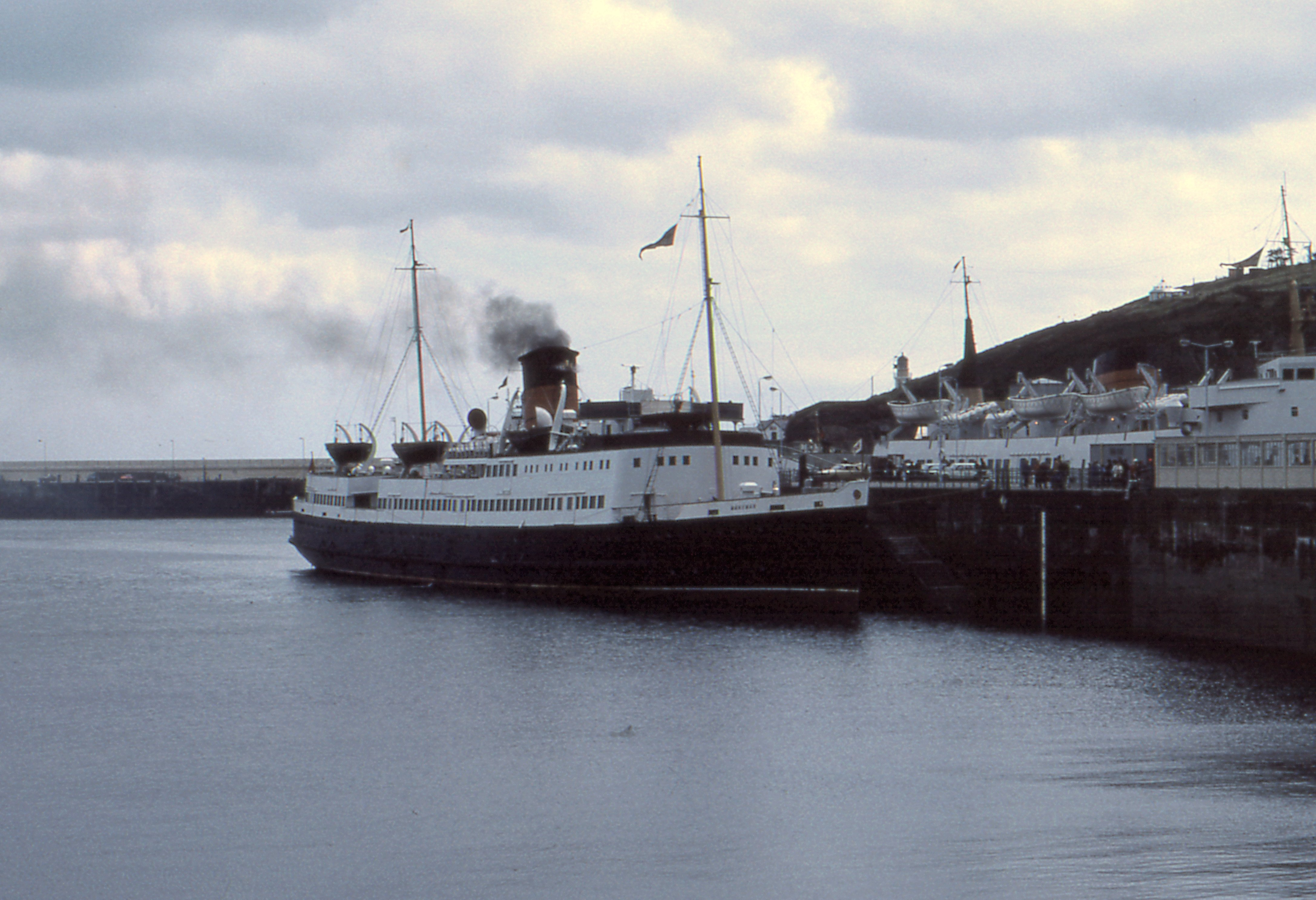 The Manx Ferry "Manxman" has slipped her moorings and is about to take a night sailing from Douglas Isle of Man to the English mainland in August 1980. Camera: Olympus OM1 35mm SLR. Film: Kodachrome.